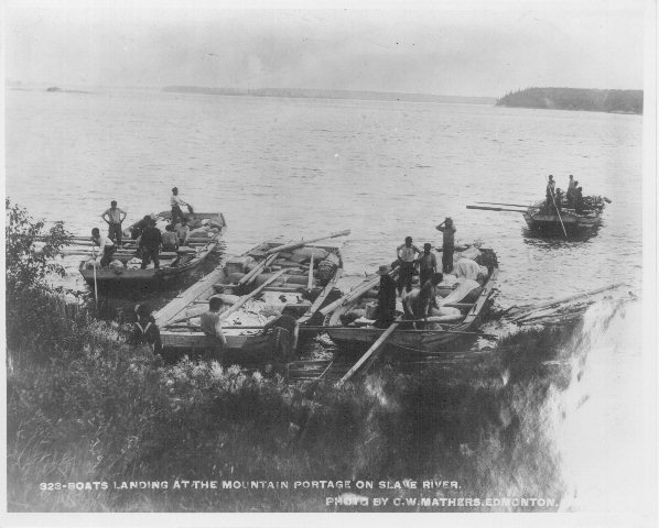 Boats landing at the Mountain Portage on the Slave River. Original caption: "BOATS LANDING AT THE MOUNTAIN PORTAGE ON THE GREAT SLAVE RIVER Four large boats are landing on the shore of the river, preparing to portage. Photo by C.W. Mathers of Edmonton, Alberta, Canada"